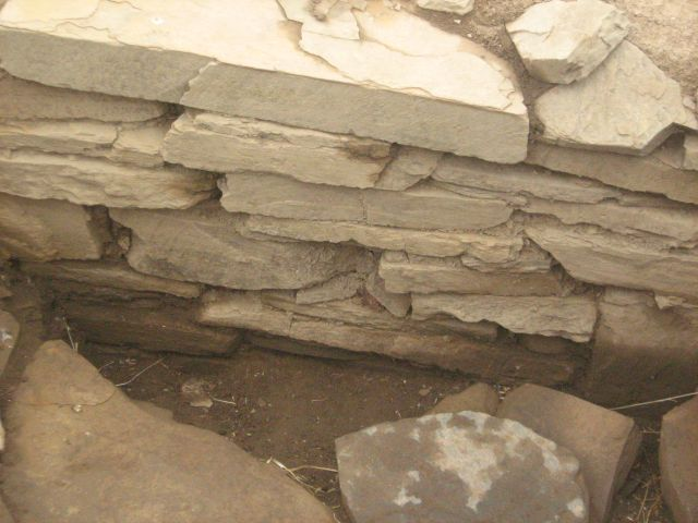 Excavations at Ness of Brodgar, Mainland Orkney